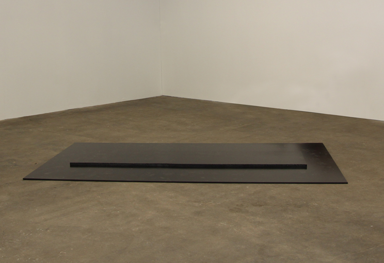 Christine Corday, PROTOIST Form ÆPI